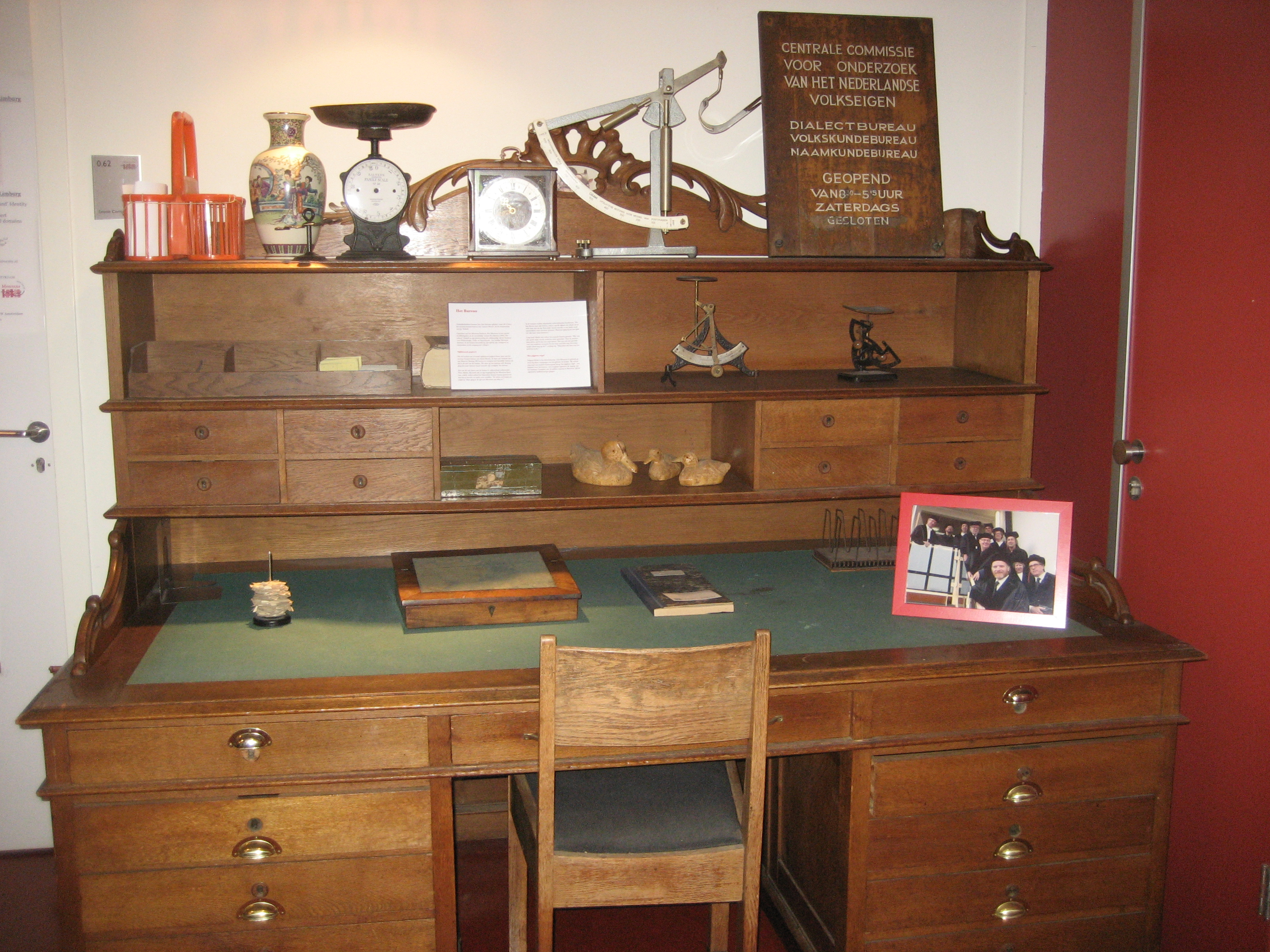 Meertens Instituut, Joan Muyskenweg 25, Amsterdam, The Netherlands. Desk of P.J. Meertens